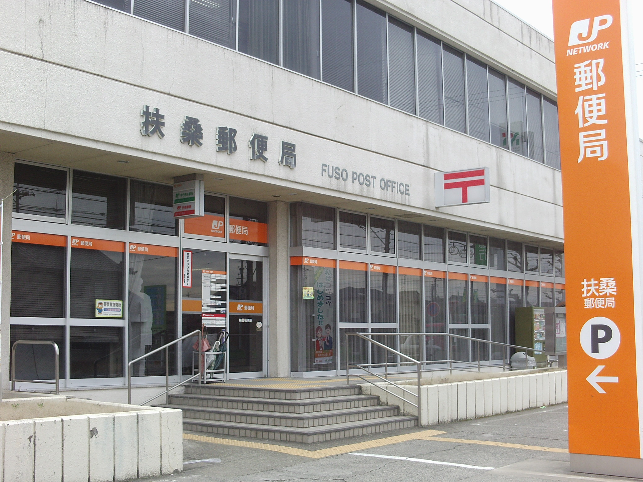 Fuso Post Office in Fuso-cho, Niwa-gun, Aichi, Japan.